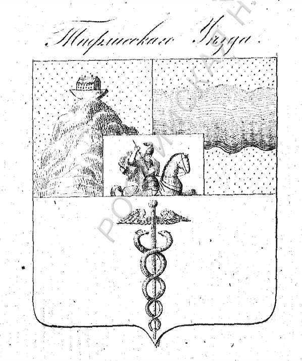 Coat of Arms of Tifliski Uyezd (1843), Russian Empire